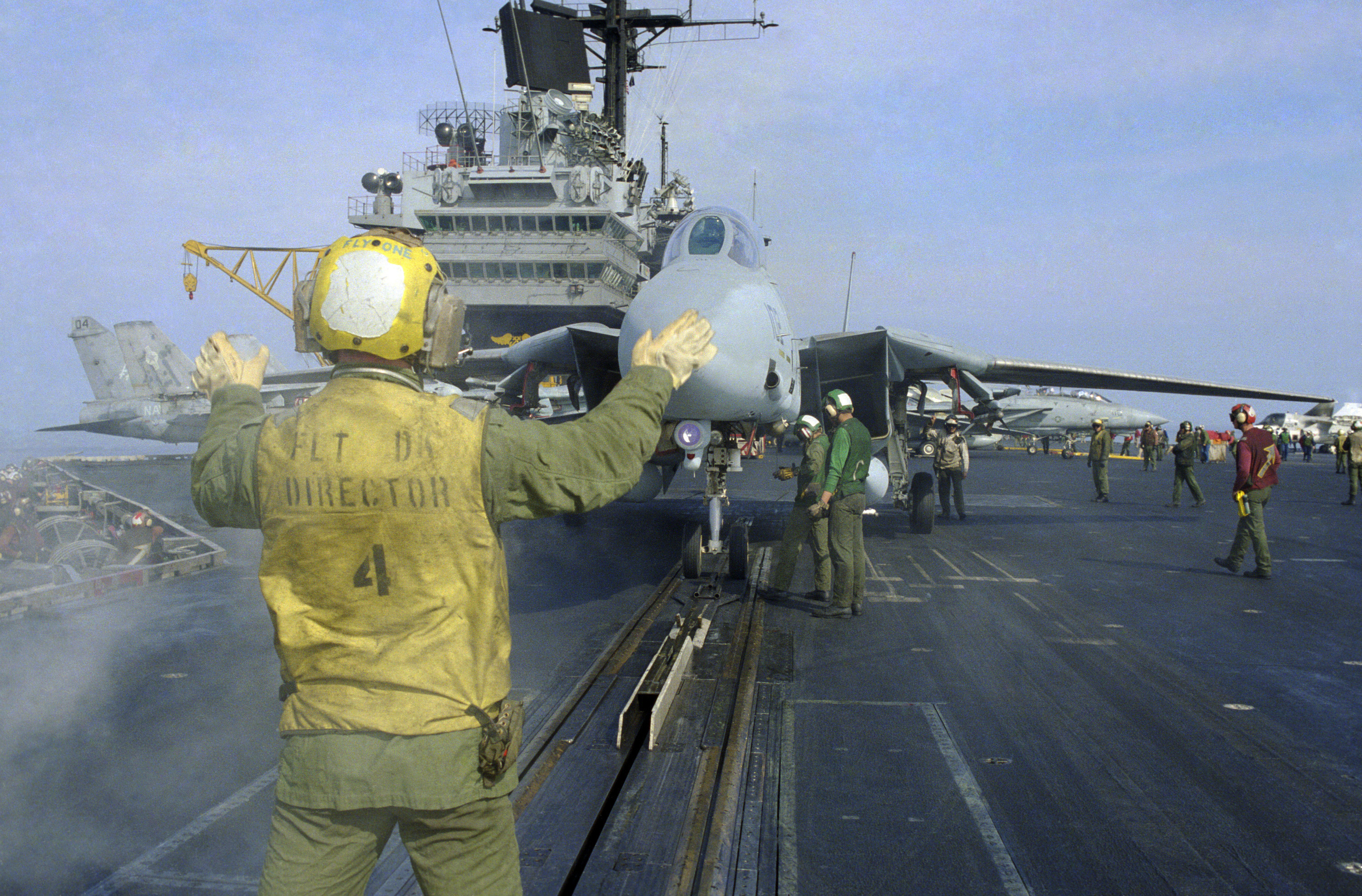 A U.S. Navy plane director guides a Grumman F-14A-105-GR Tomcat aircraft (BuNo 160897) from fighter squadron VF-74 Be-Devilers into position over a catapult on the flight deck of the aircraft carrier USS Saratoga (CV-60). VF-74 was assigned to Carrier Air Wing 17 (CVW-17) aboard the Saratoga for a deployment to the Mediterranean Sea from 26 August 1985 to 16 April 1986.